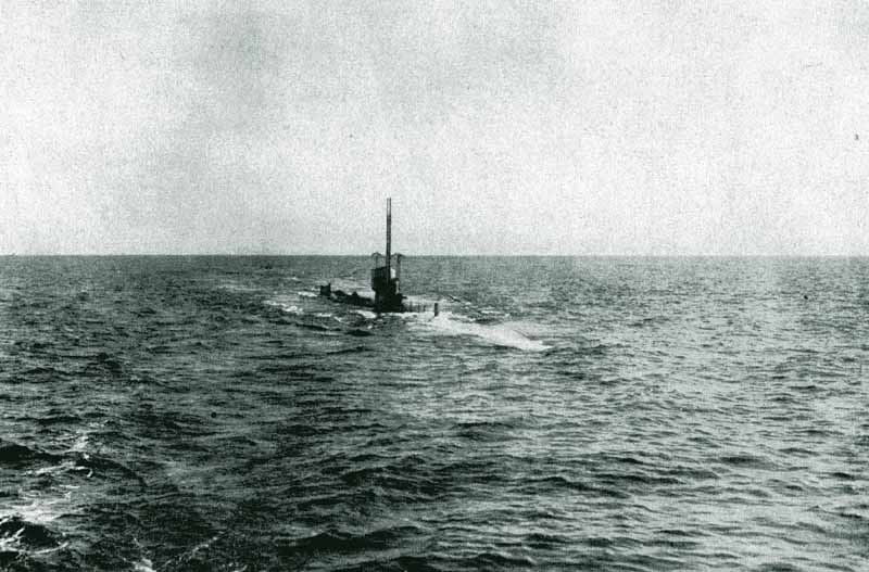 SM U 35, Commander Lothar von Arnauld de la Perière, cruising in the Mediterranean